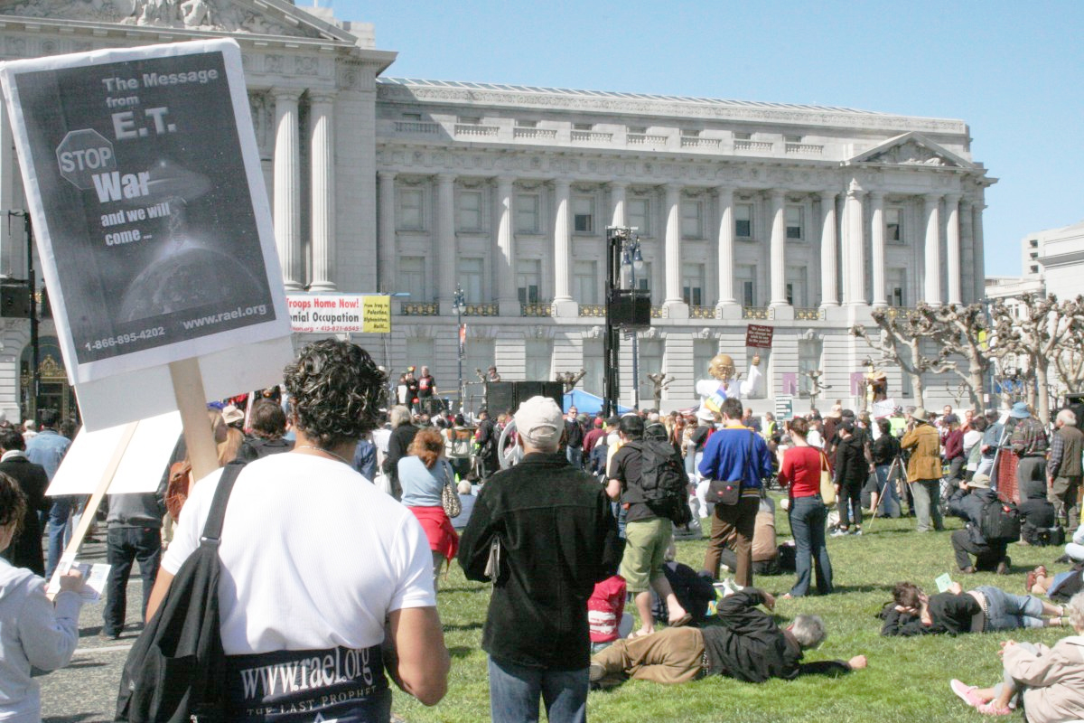 Raelians protesting the Iraq war in San Francisco.